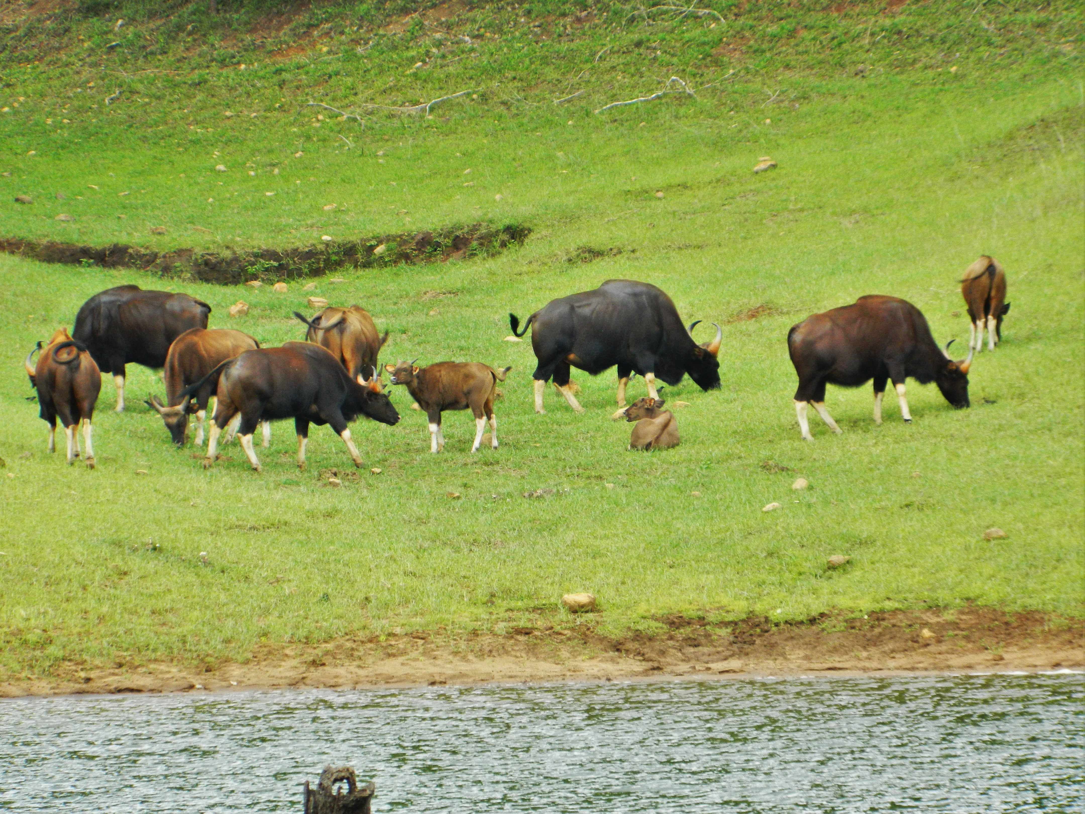 The gaur (Bos gaurus), also called Indian bison, is the largest extant bovine, native to South Asia and Southeast Asia. The species has been listed as vulnerable on the IUCN Red List since 1986, as the population decline in parts of the species' range is likely to be well over 70% during the last three generations.